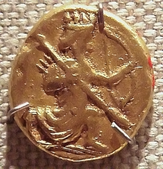 Achaemenid Daric 4th Century BC